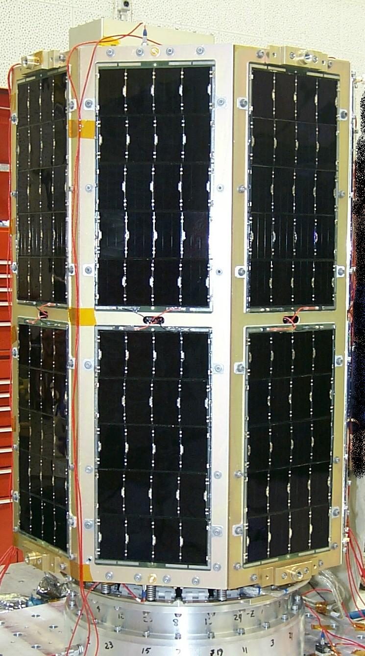 The MidSTAR-1 satellite. High-efficiency, triple-junction gallium arsenide solar cells cover the sides; the S-band transmit antenna is visible at the upper right. The external neutron detector for the MicroDosimeter Instrument (MiDN) is visible on the top.